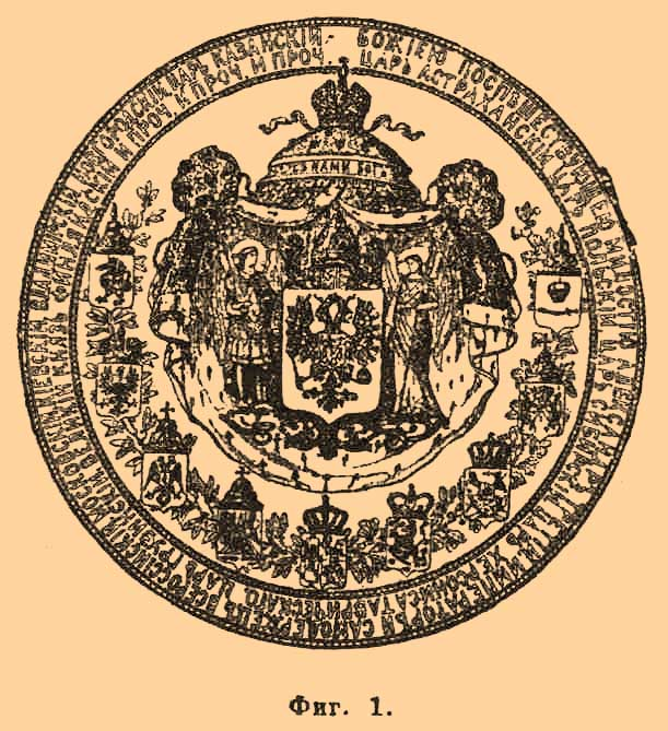 Illustration from Brockhaus and Efron Encyclopedic Dictionary (1890—1907)